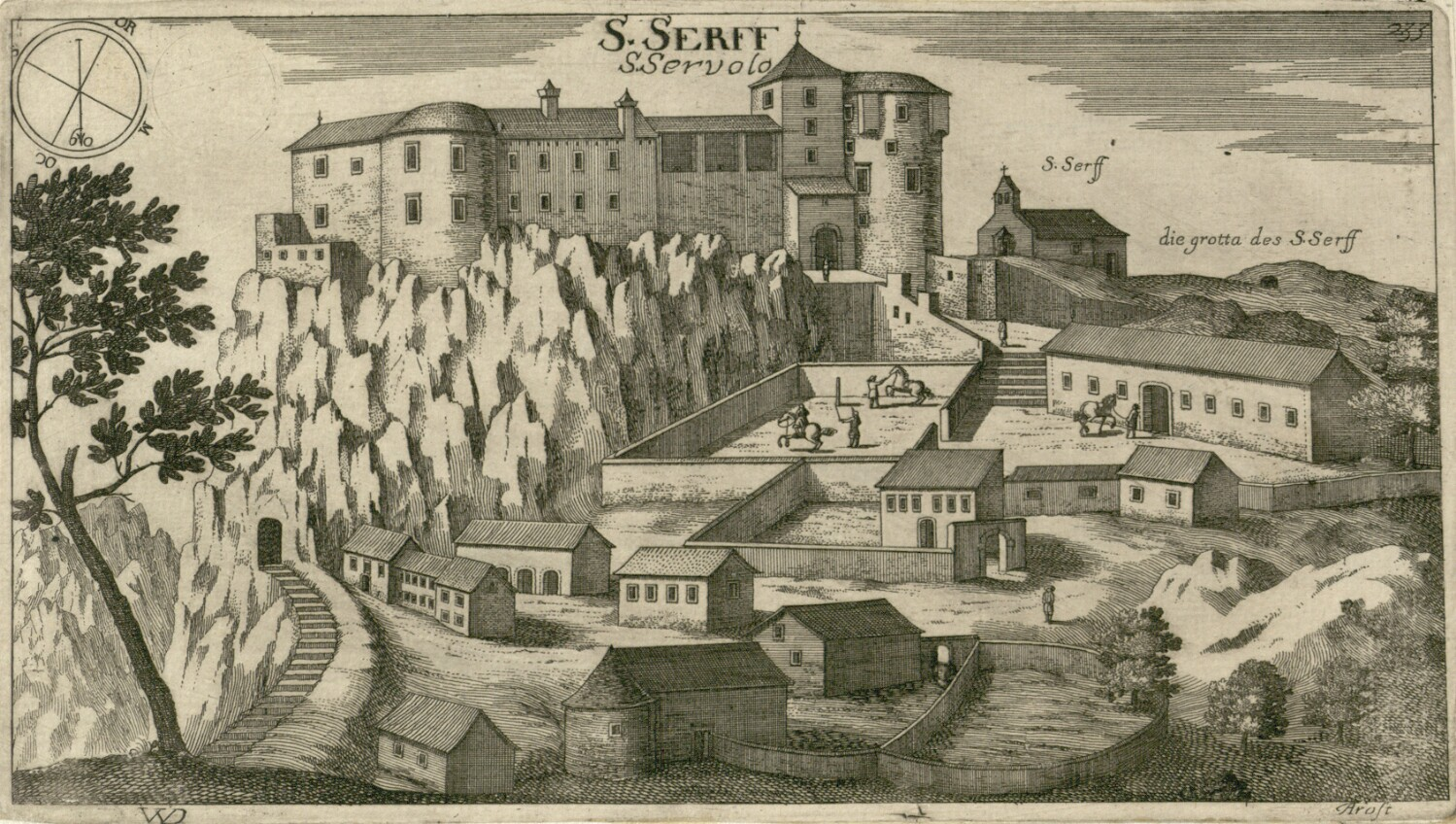 Socerb Castle